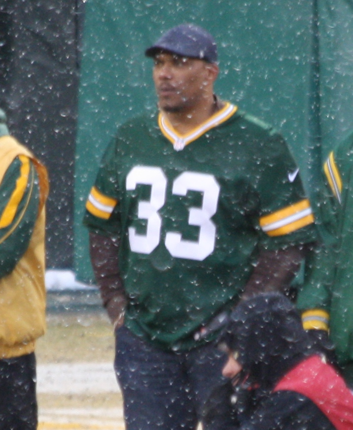 Former Green Bay Packers player William Henderson after being introduced as a legend against the Pittsburgh Steelers in 2013.